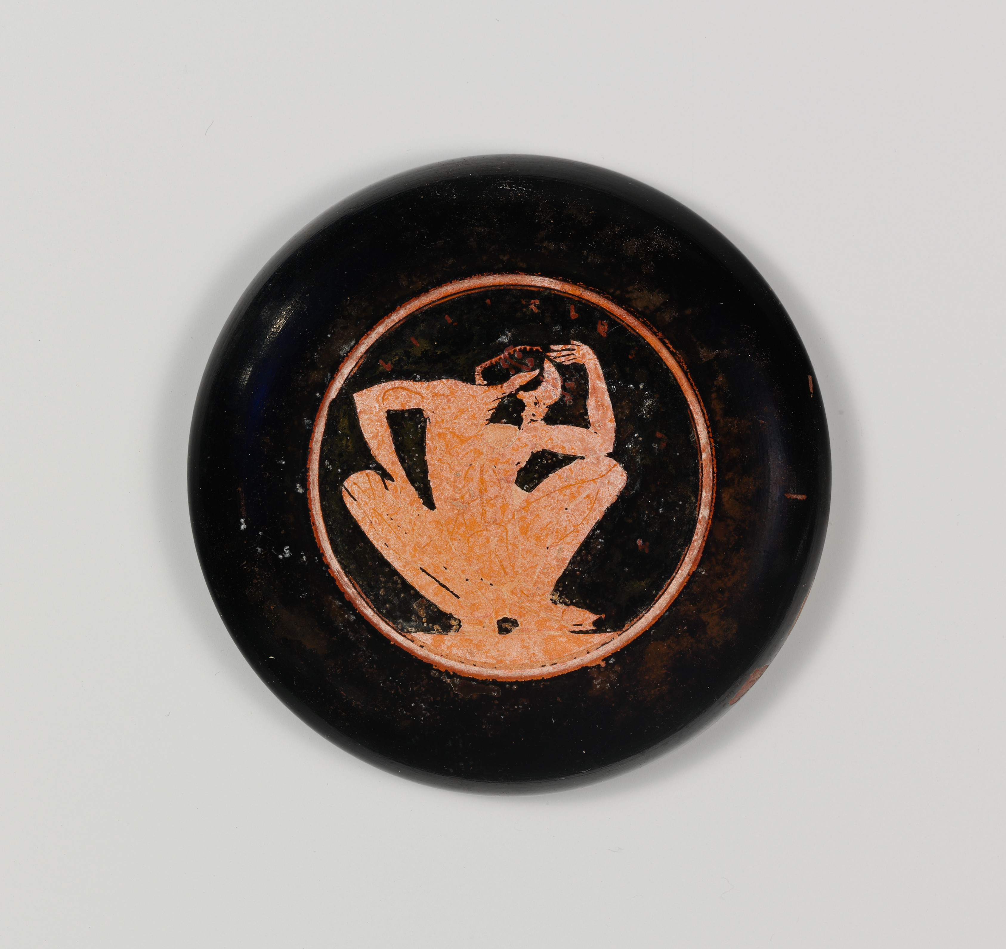 Greek, Attic; Pyxis, type D; Vases